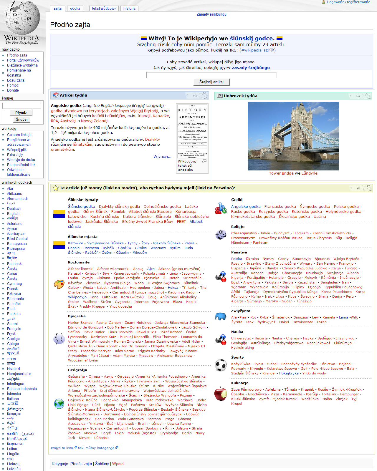 Screenshot of Silesian Wikipedia Main Page.